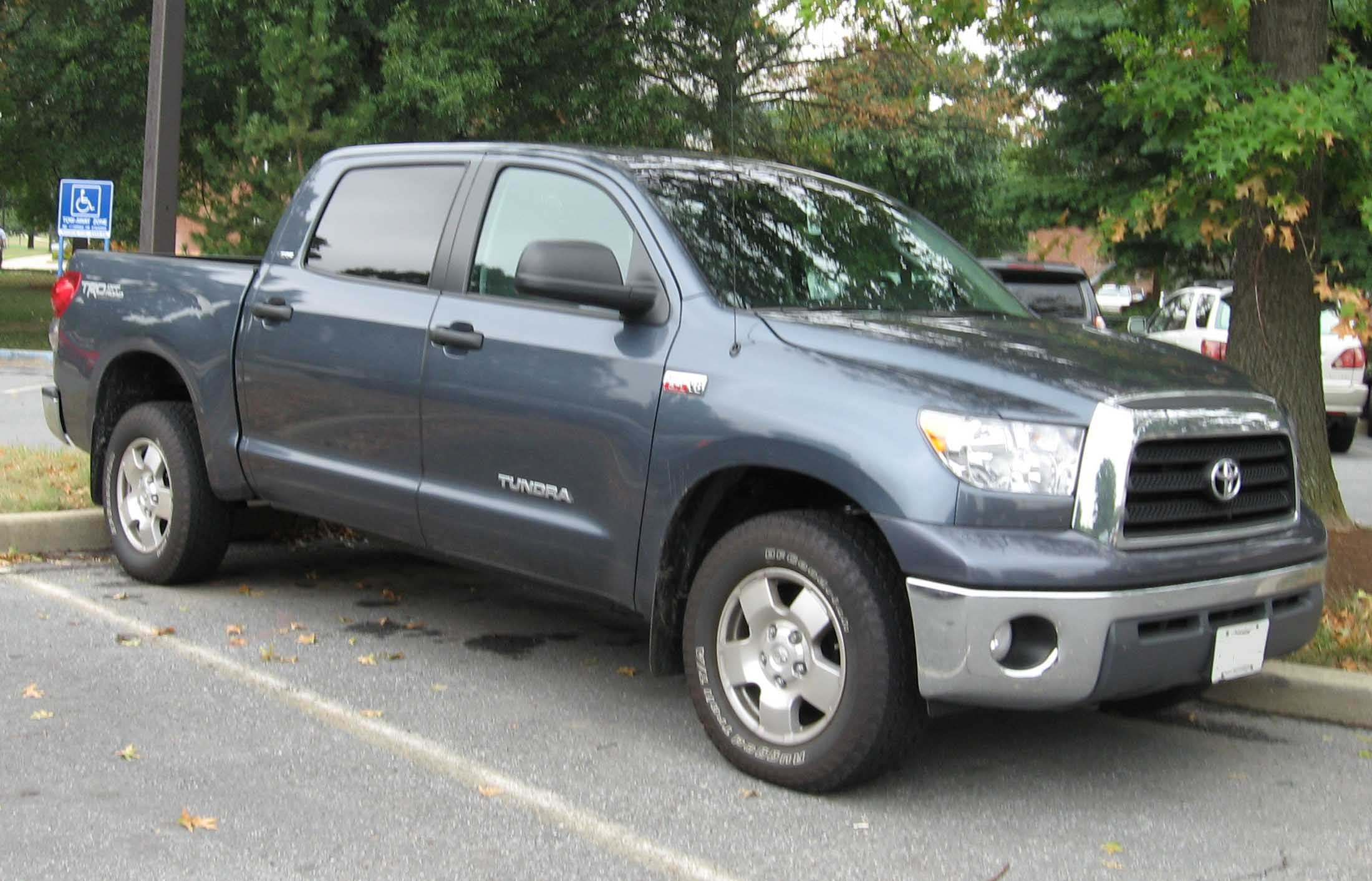 2007 Toyota Tundra photographed in USA.